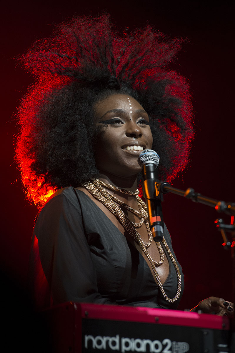 Laura Mvula performing at the Montreux Jazz Festival (Switzerland) on July 11th 2014